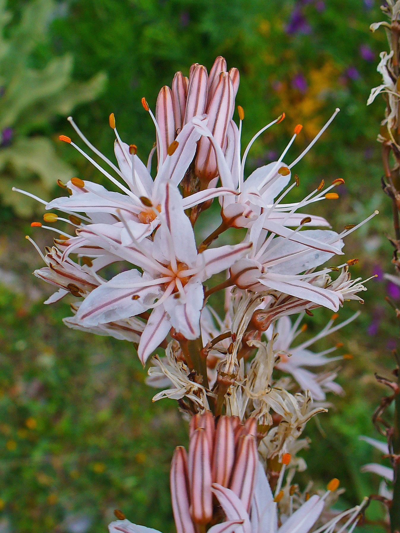 Asphodelus ramosus, Asphodelaceae, Branched asphodel, inflorescence; Tzermiado, Crete, Greece. The plant is used in homeopathy as remedy: Asphodelus albus (Asph-r.)